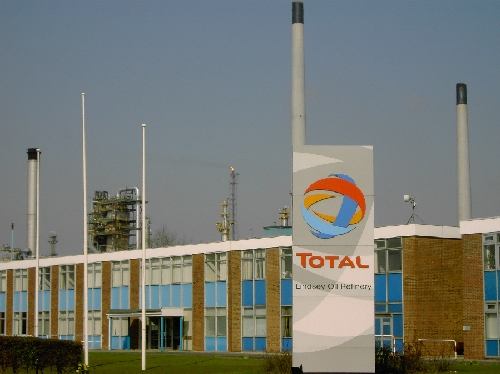 Lindsey Oil Refinery at North Killingholme.